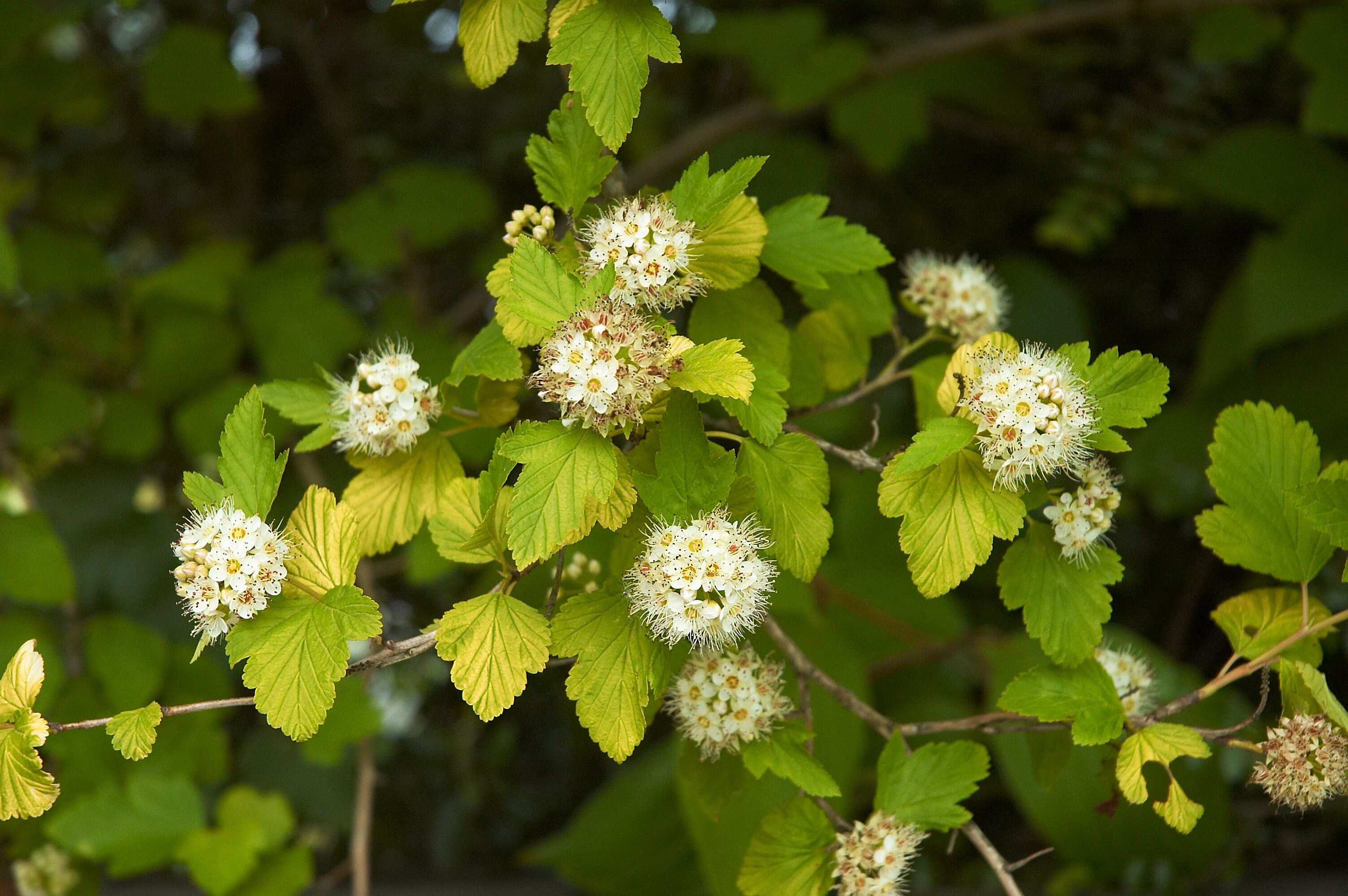 Dwarf Golden Ninebark